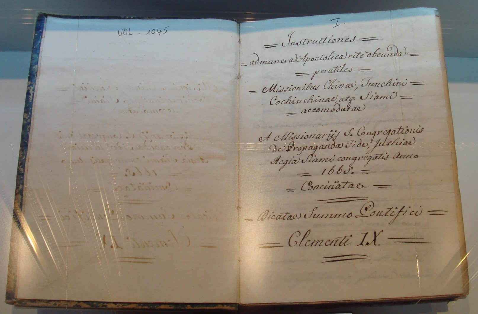 Instructions aux Missionaires (1665) by French bishop Pierre Lambert de la Motte